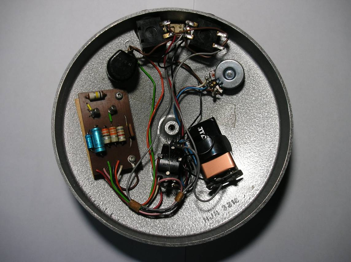 Dallas Arbiter Fuzz Face Effect Pedal, owned by photographer, showing inside components